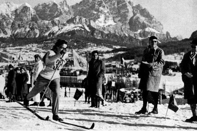 Soviet cross-country skier Lyubov Kozyreva during the ladies’ cross-country 10 km at 1956 Winter Olympics in Cortina, Italy